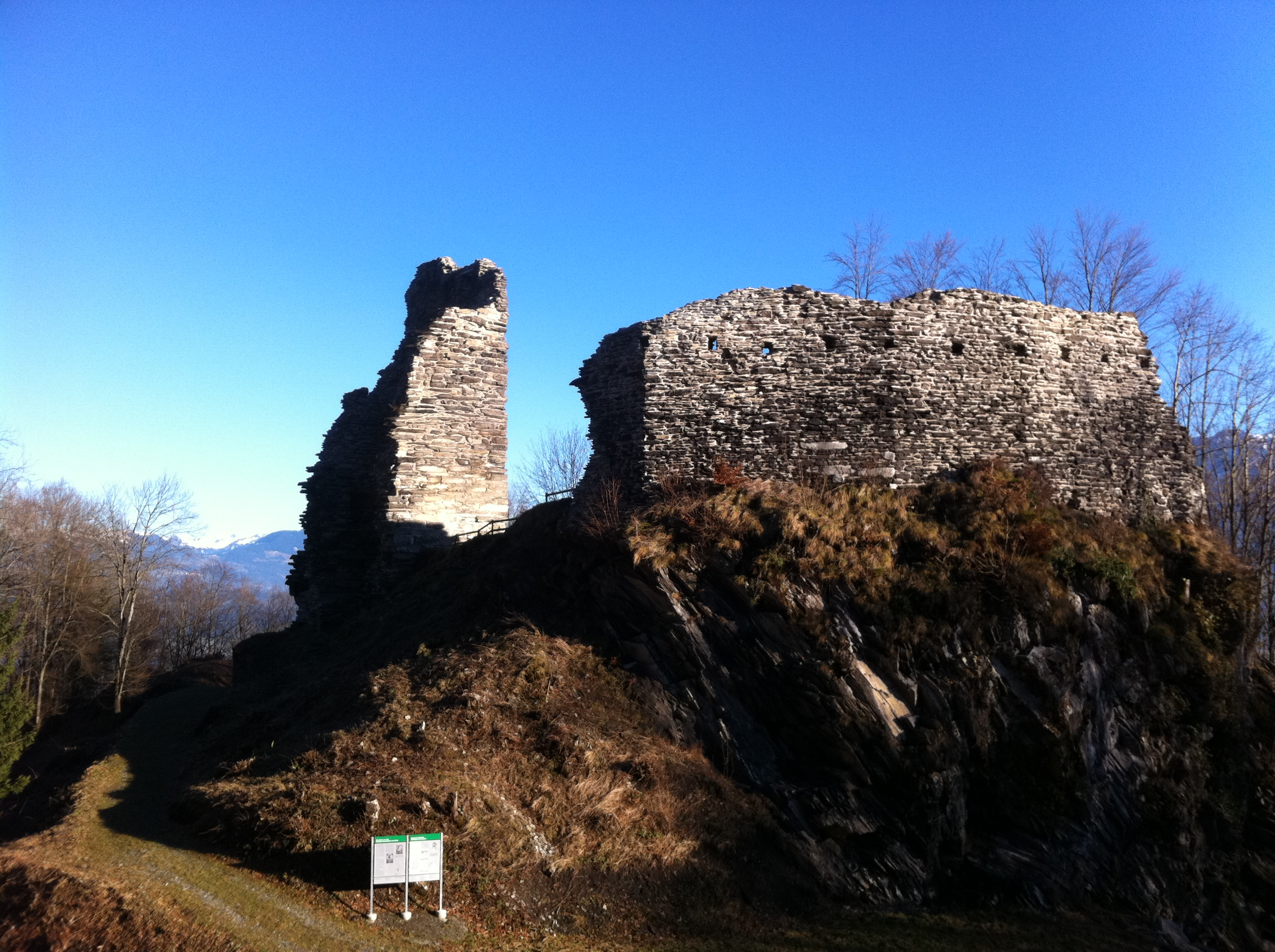 Ruin Hohensax in the evening